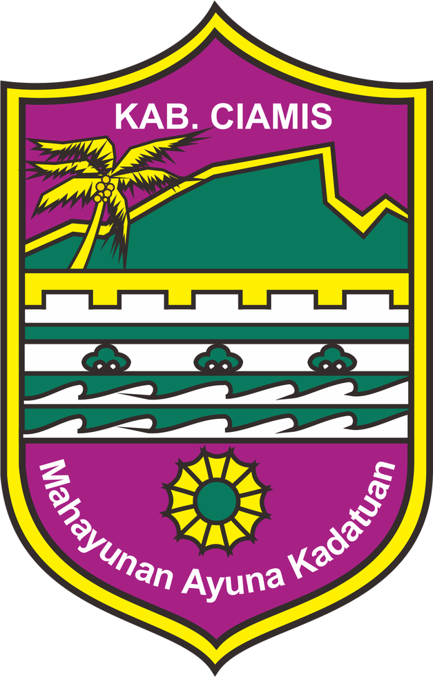 Coat of arms of Ciamis Regency